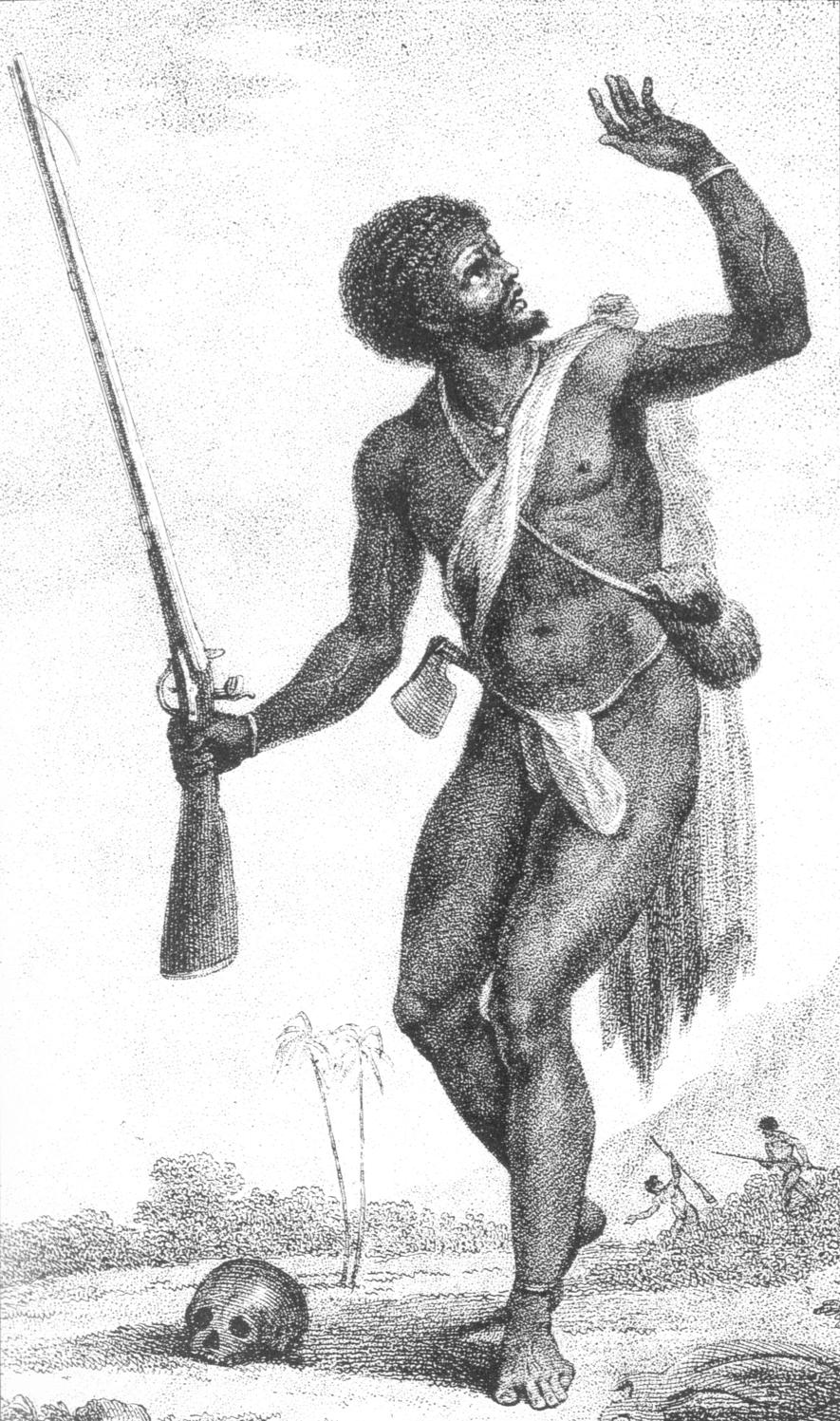 Cimarrón, engraving, 18. cent.